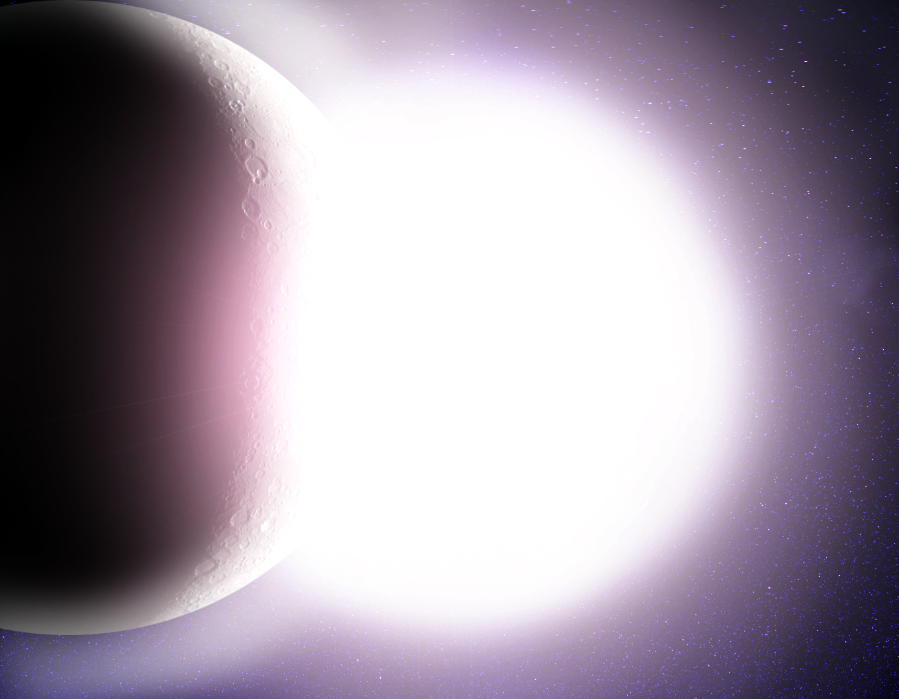 Super Giant Star Cygnus OB2-12 as seen by a hypothetical close orbiting planet.